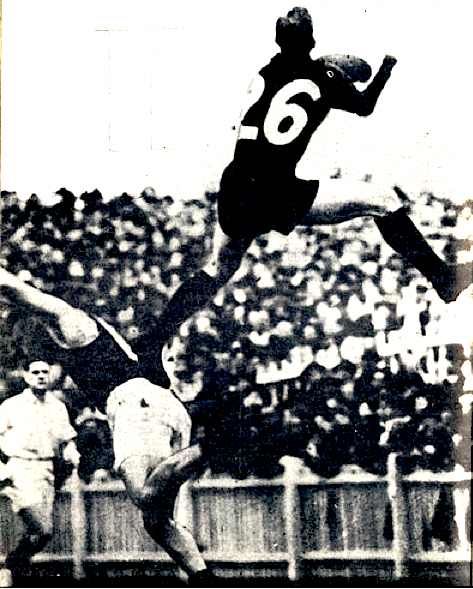 On Saturday, 28 May 1938, at Princes Park, Carlton's Jim Park marking overMelbourne's Eric George "Tarzan" Glass